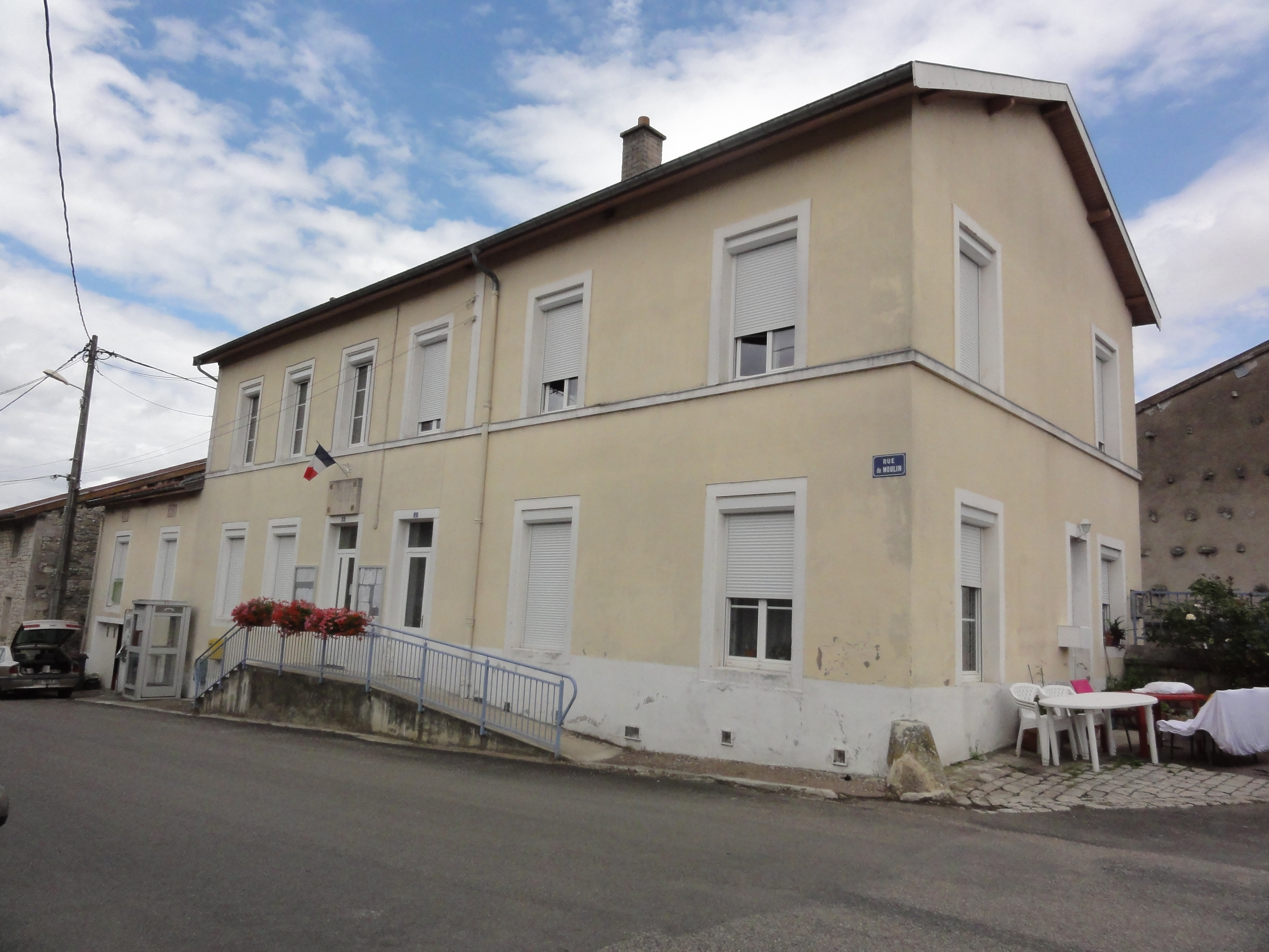 Menaucourt (Meuse) mairie